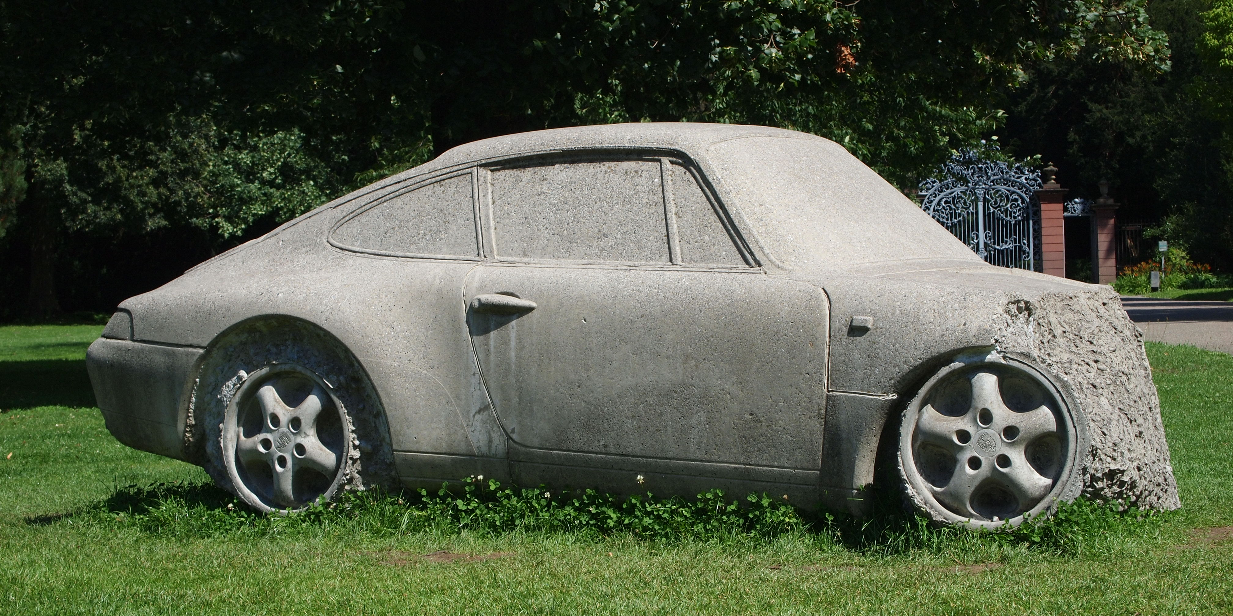 Exhibition CarCulture in Karlsruhe, public sculpture in the castle garden